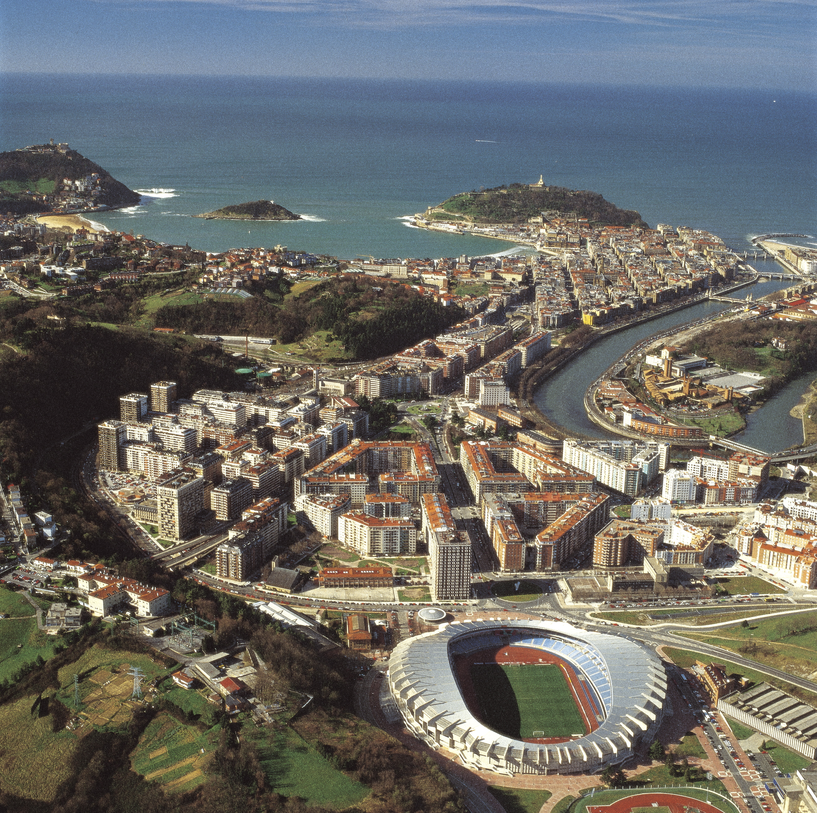 Amara, Donostia-Saint Sebastian. Basque Country.